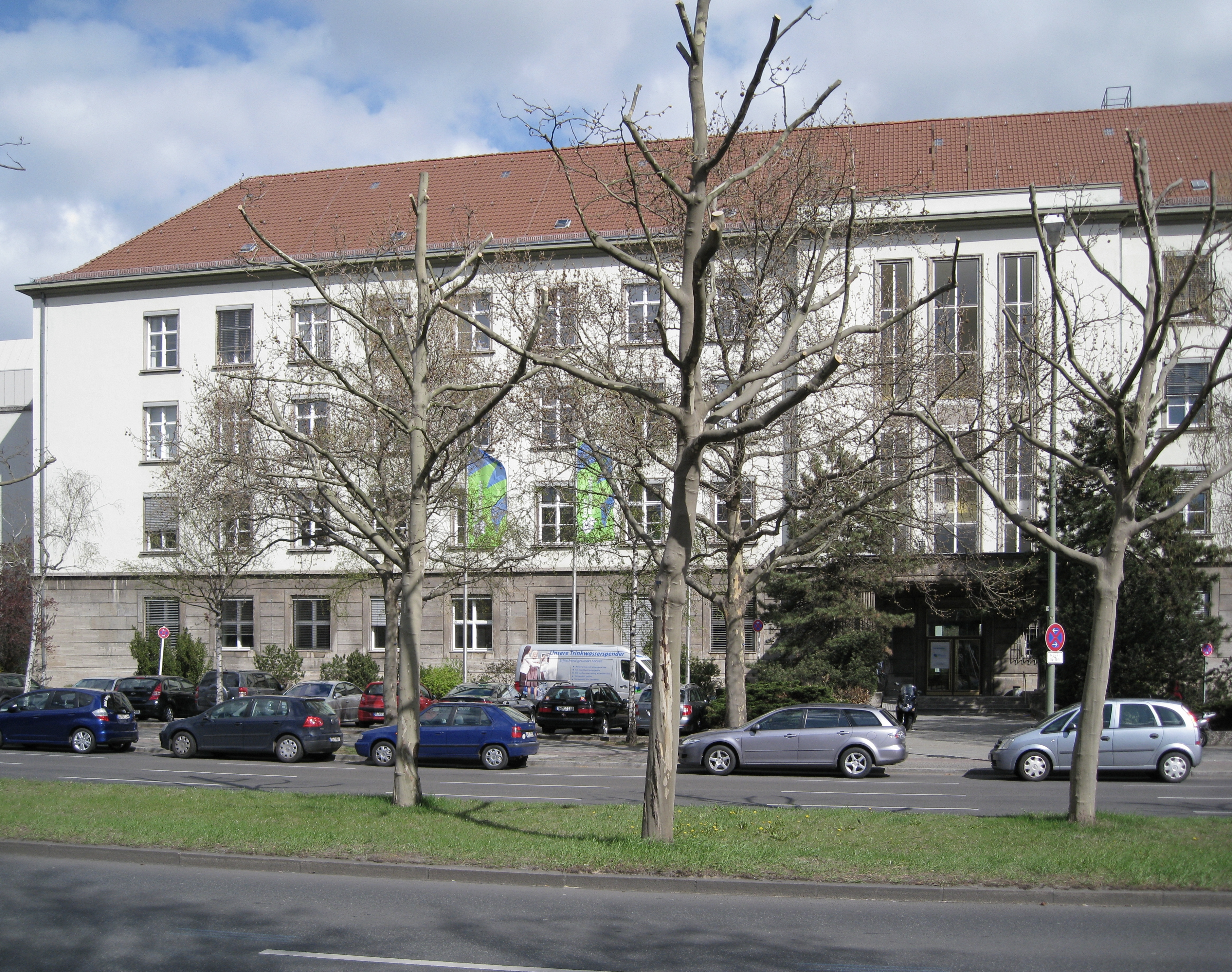 Verwaltungsgebäude